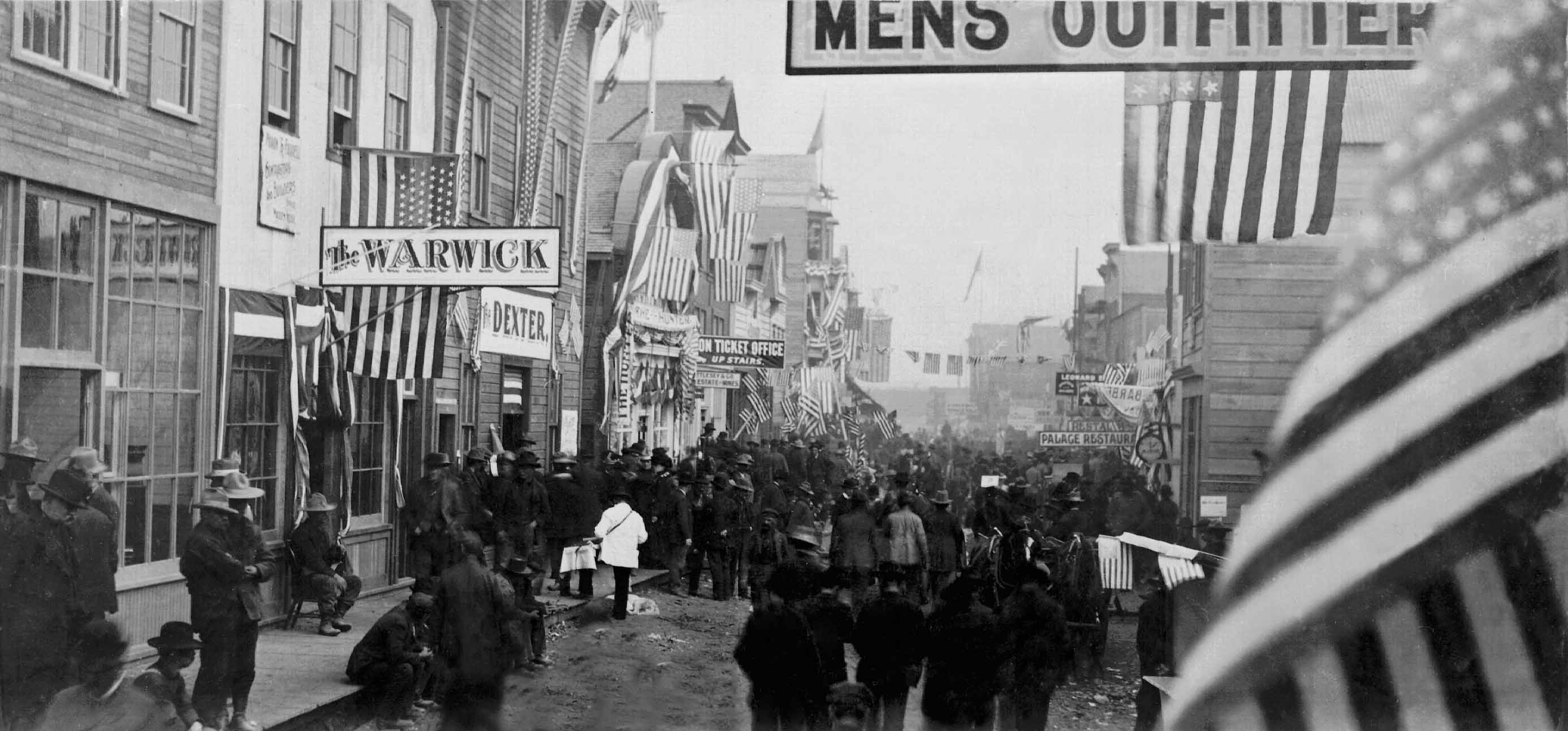 Front Street, Nome, Alaska on July 17, 1900, at the height of the Alaska Gold Rush. The Dexter Saloon at left was owned by Wyatt Earp and his partner Charles E. Hoxie. It was the city's first two story wooden building and its largest and most luxurious saloon.